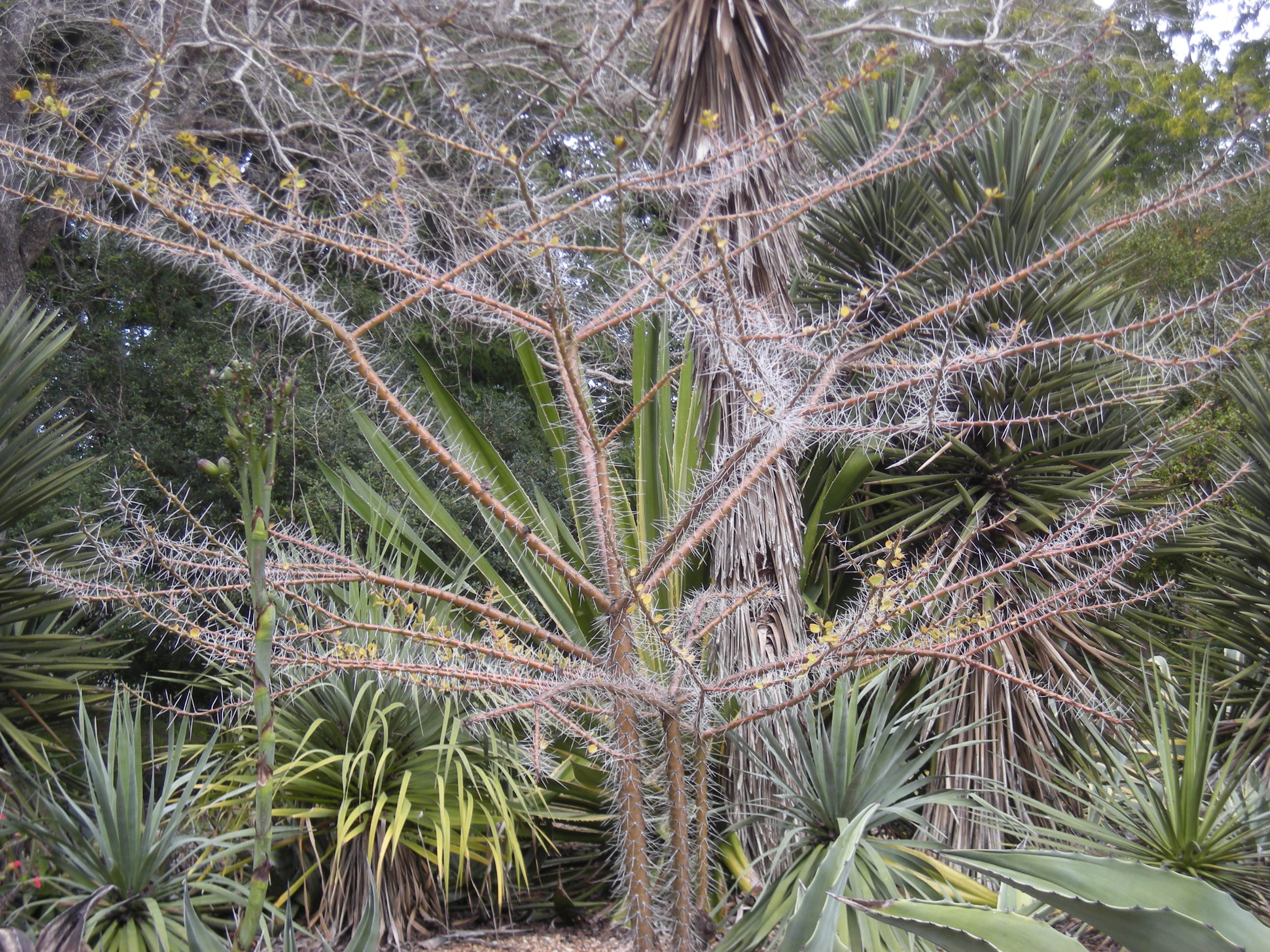 Pereskia lychnidiflora tree